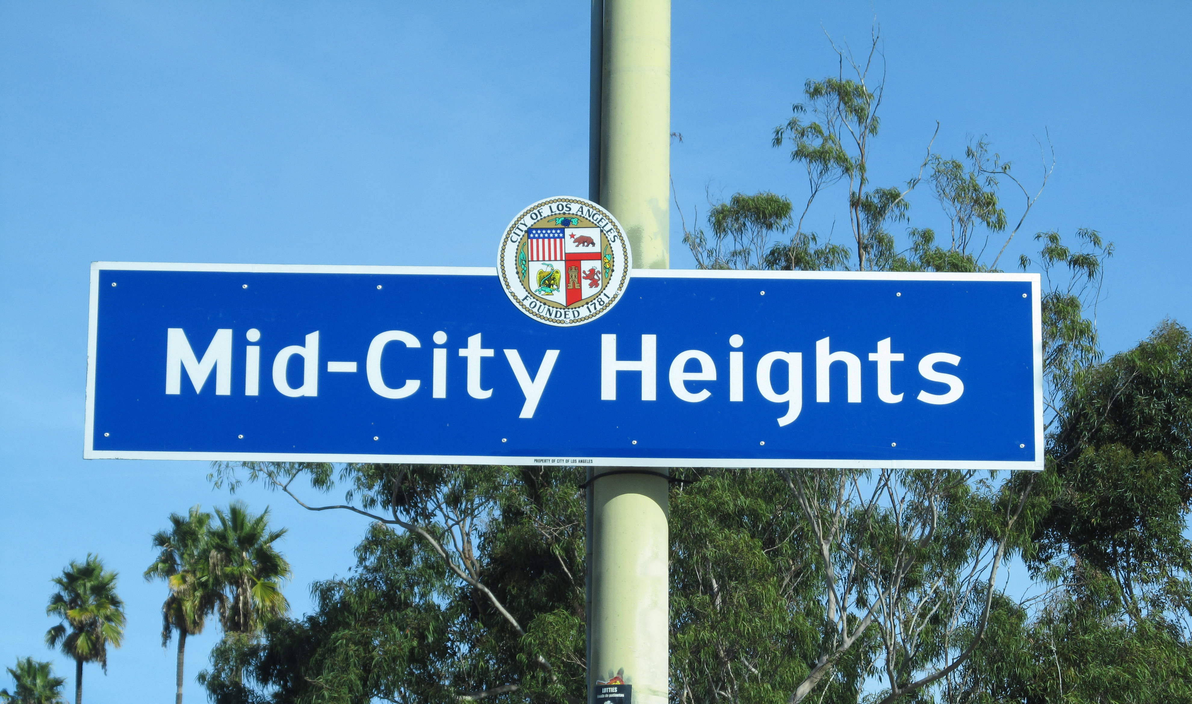 Mid-City Heights signage located at West Boulvard & the Santa Monica Freeway, Los Angeles